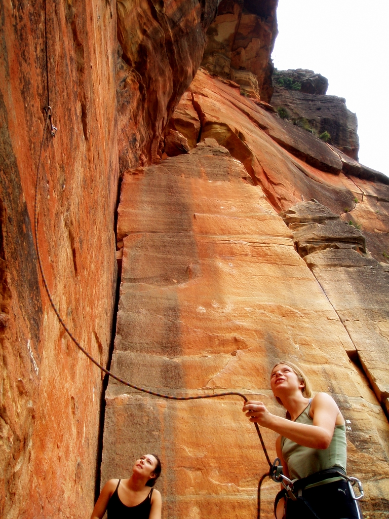 A belayer belaying a lead climber at Mt. Piddington in Australia